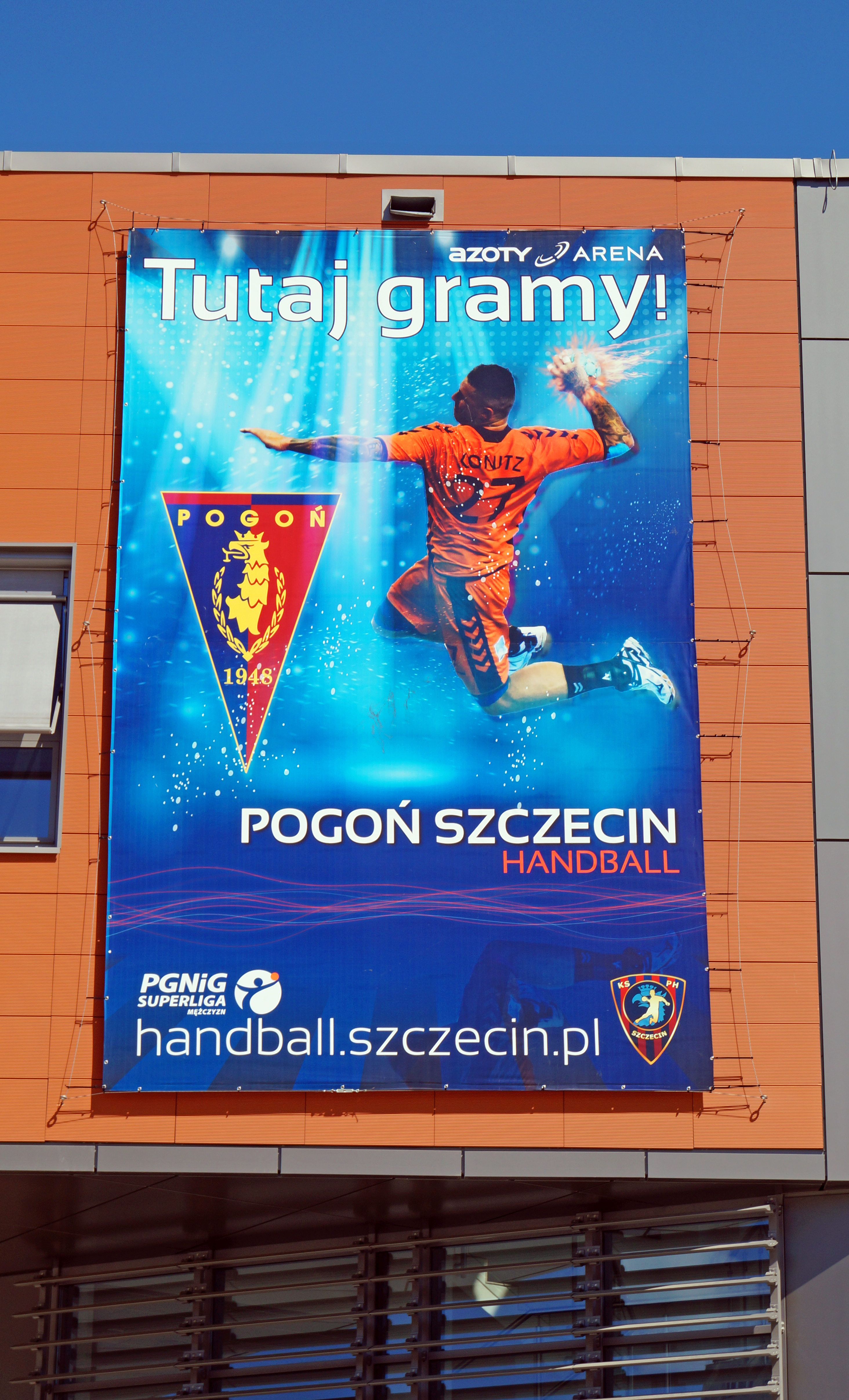 Banner Pogon Szczecin (Handball), Arena Szczecin (Azoty Arena) in Szczecin, Poland